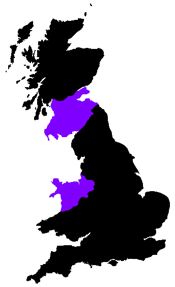 Scottish Power distribution area